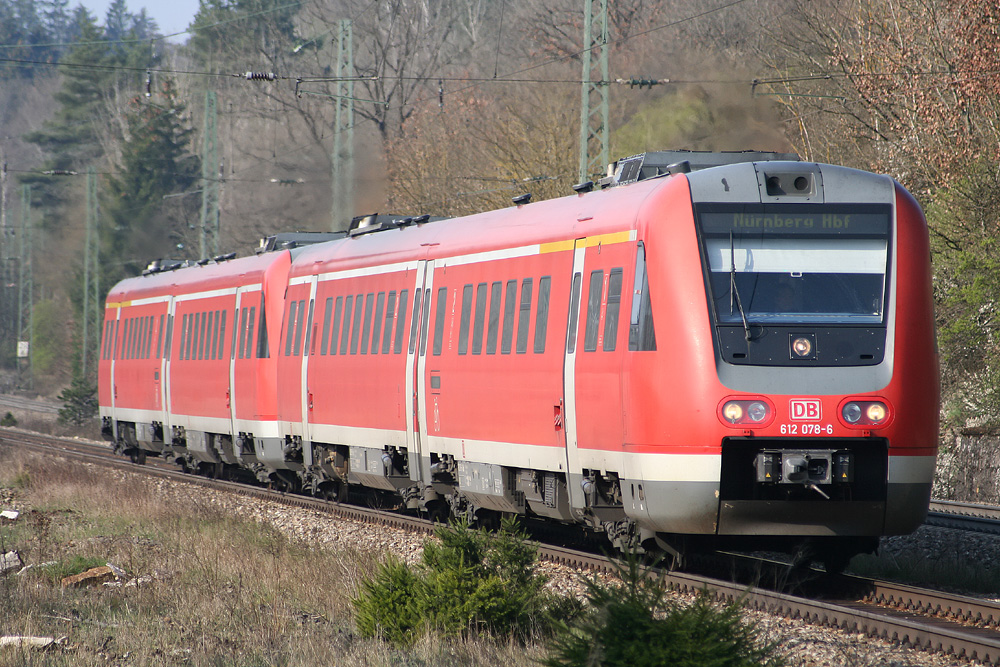 A DB class 612 (multiple diesel unit with tilting technology) near Treuchtlingen